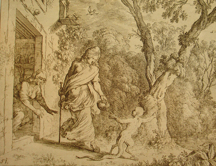 Ceres is mocked by a boy, which is turned into a star lizard (Ovid. Met. V, 449ff). Engraving by Johann Wilhelm Bauer, 1659.